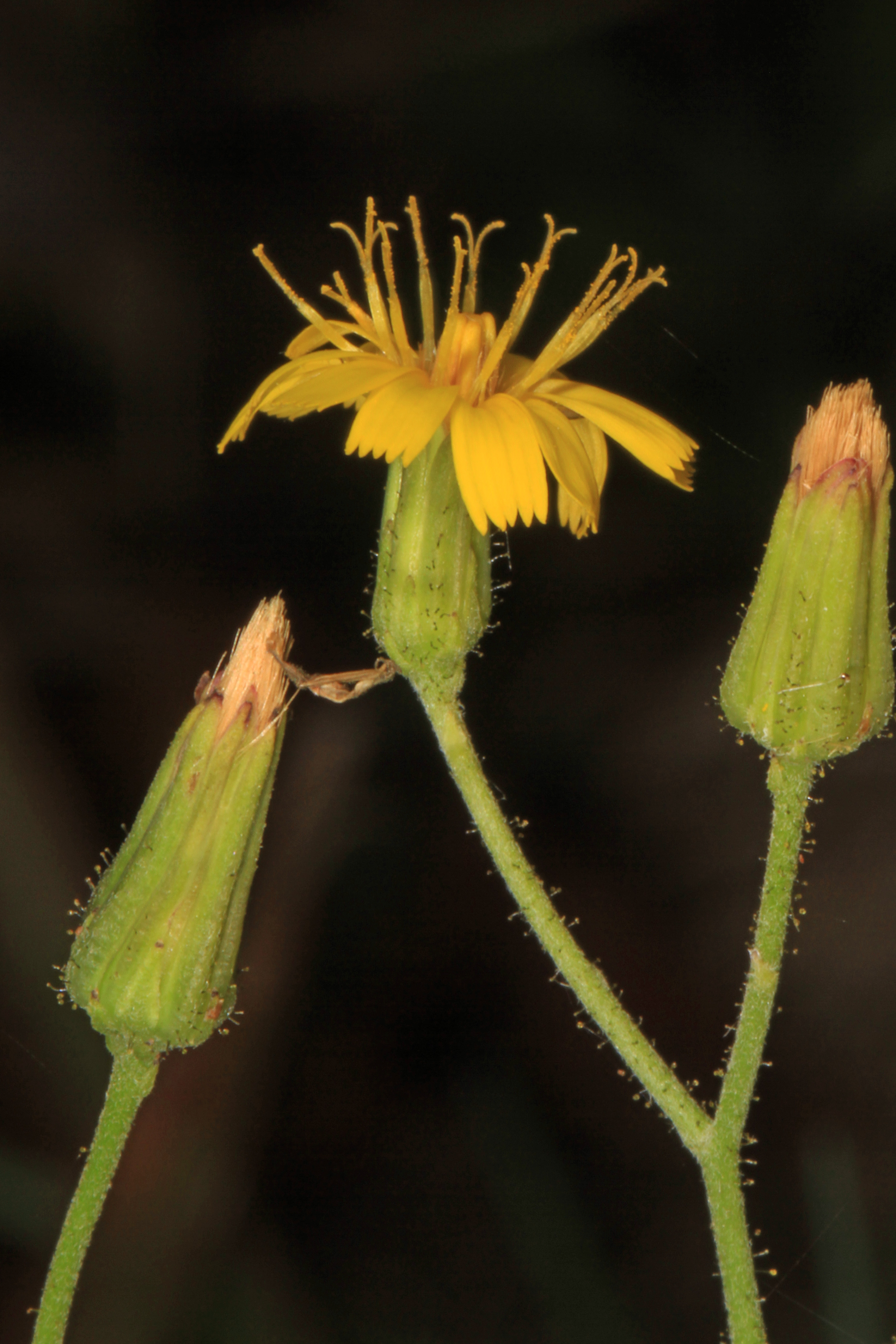 Spotted Cat's Ear - Hypochaeris maculata, Merrimac Farm Wildlife Management Area, Aden, Virginia.